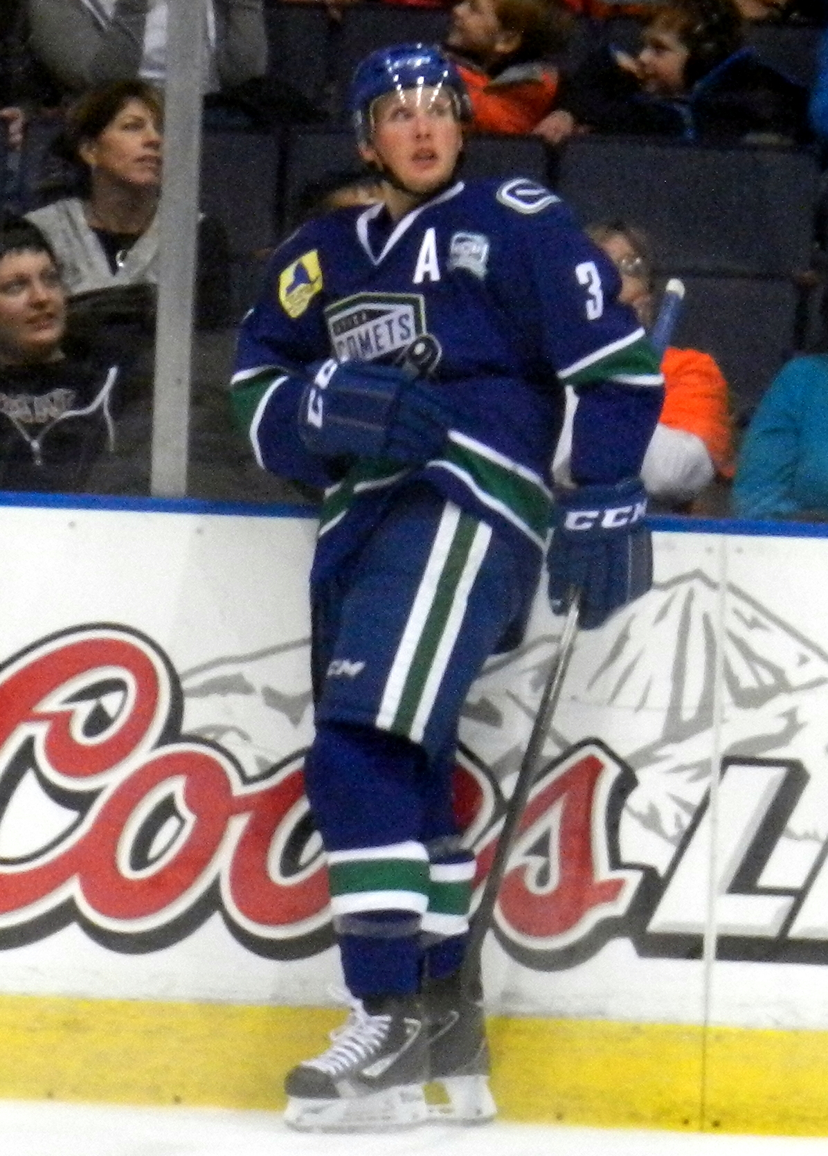 Alex Biega playing for the American Hockey League's Utica Comets in a game vs. the Rochester Americans during the 2013-14 AHL season